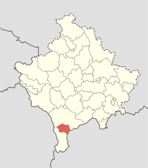 Opolje location on the map of Kosovo. Opolje is a region in the southern part of the municipality of Prizren (Republic of Kosovo). Opolje was part of the municipality of Gora during Yugoslavia. It was briefly a municipality of its own (sometime after 1981, until November 3, 1992) but was then incorporated into the municipality of Prizren by the Republic of Serbia. The United Nations Interim Administration Mission in Kosovo joined Gora and Opolje into Dragaš (1999-2008). The Republic of Kosovo merged the region of Opolje into the municipality of Prizren.